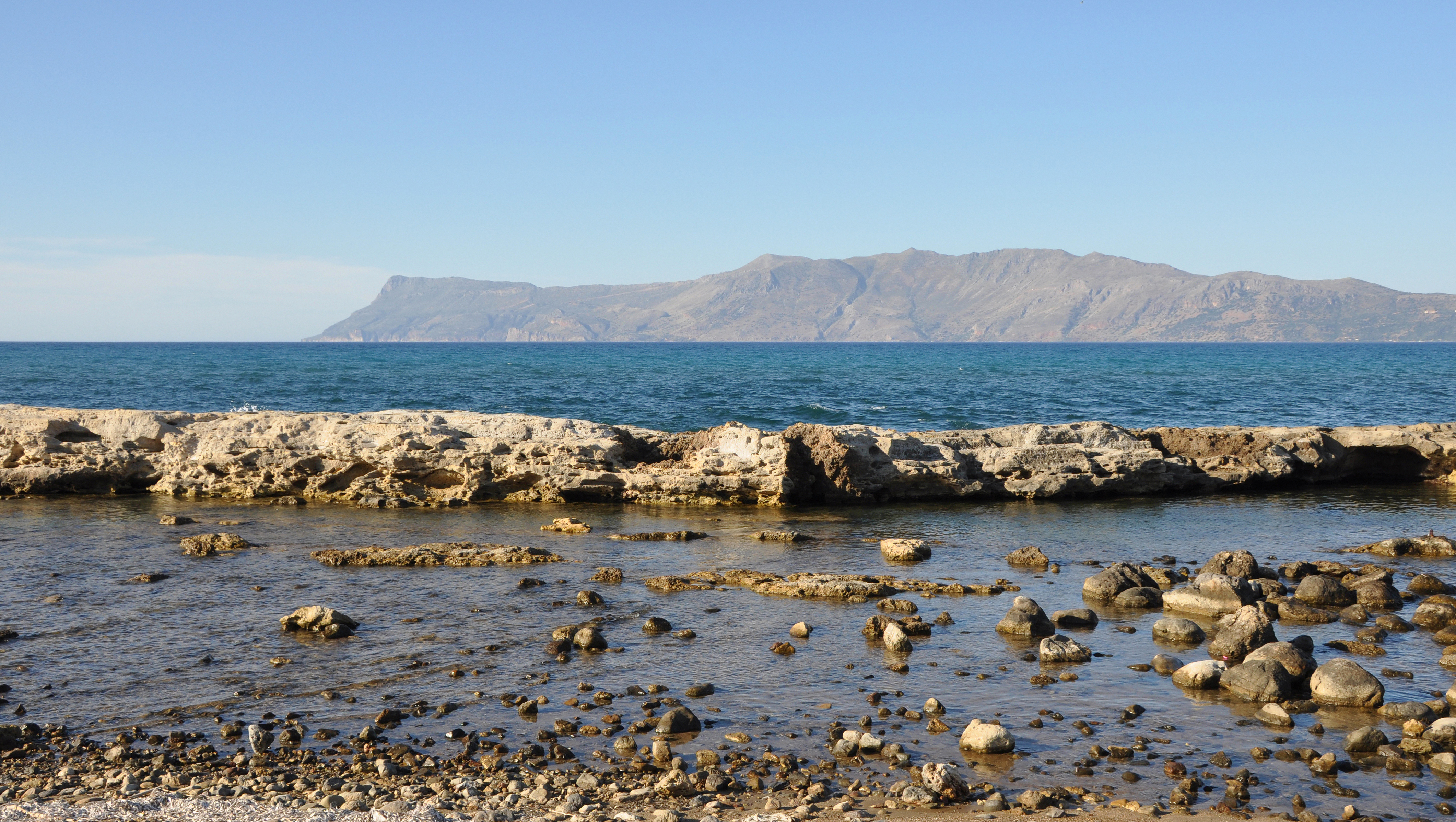 Kissamos (Crete, Greece): the Bay of Kissamos and (in the background) the Rodopou peninsula